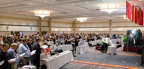 Metropolitan New York Synod Membership